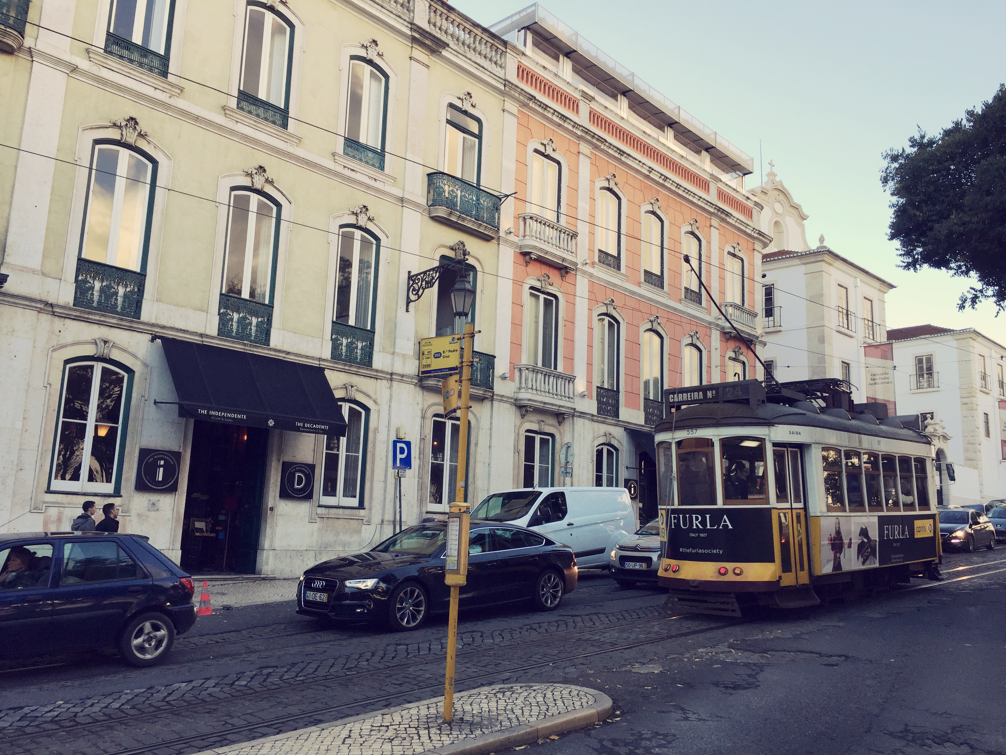 Lisbon, Portugal @ WebSummit 2018